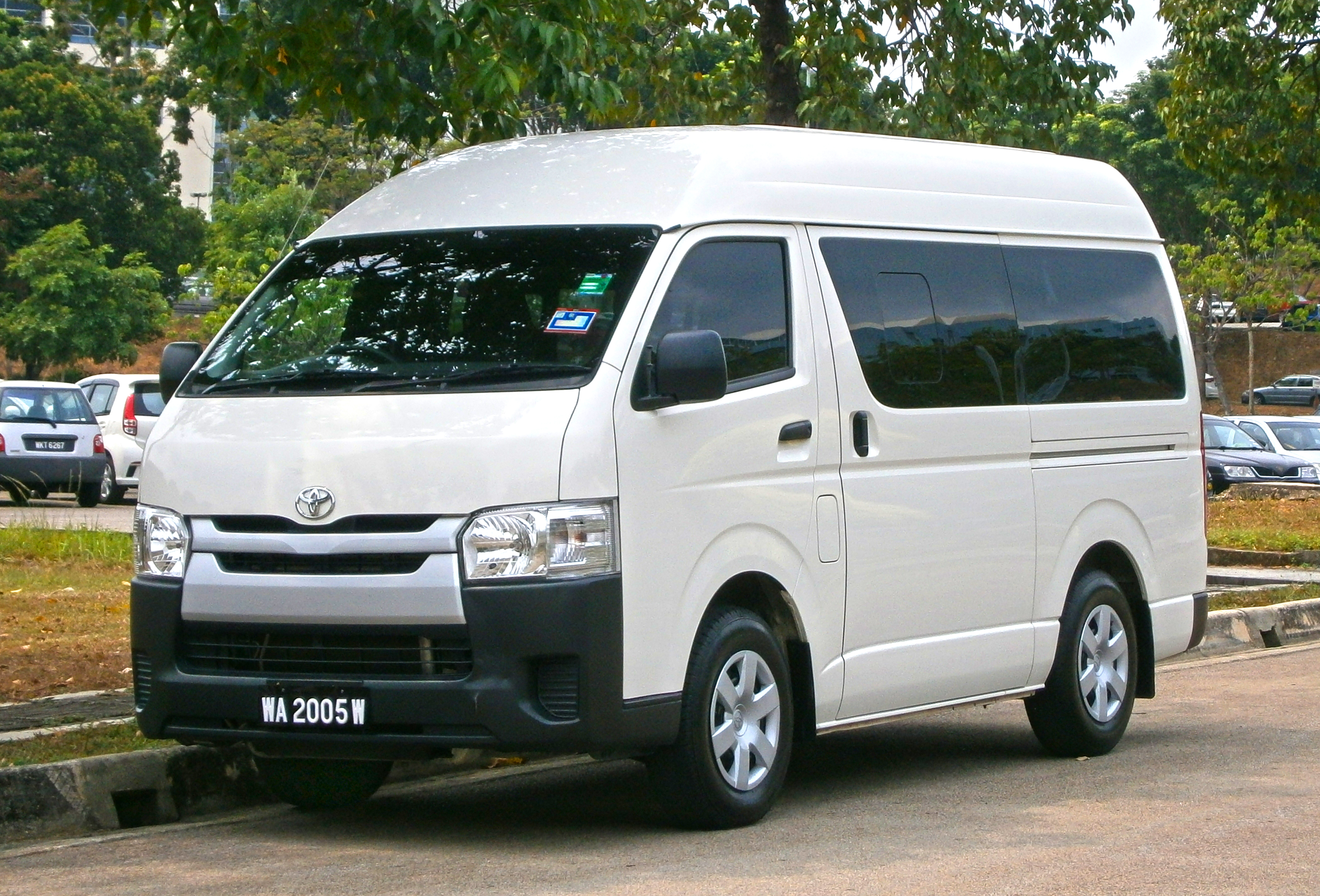 2014 Toyota HiAce Window Van